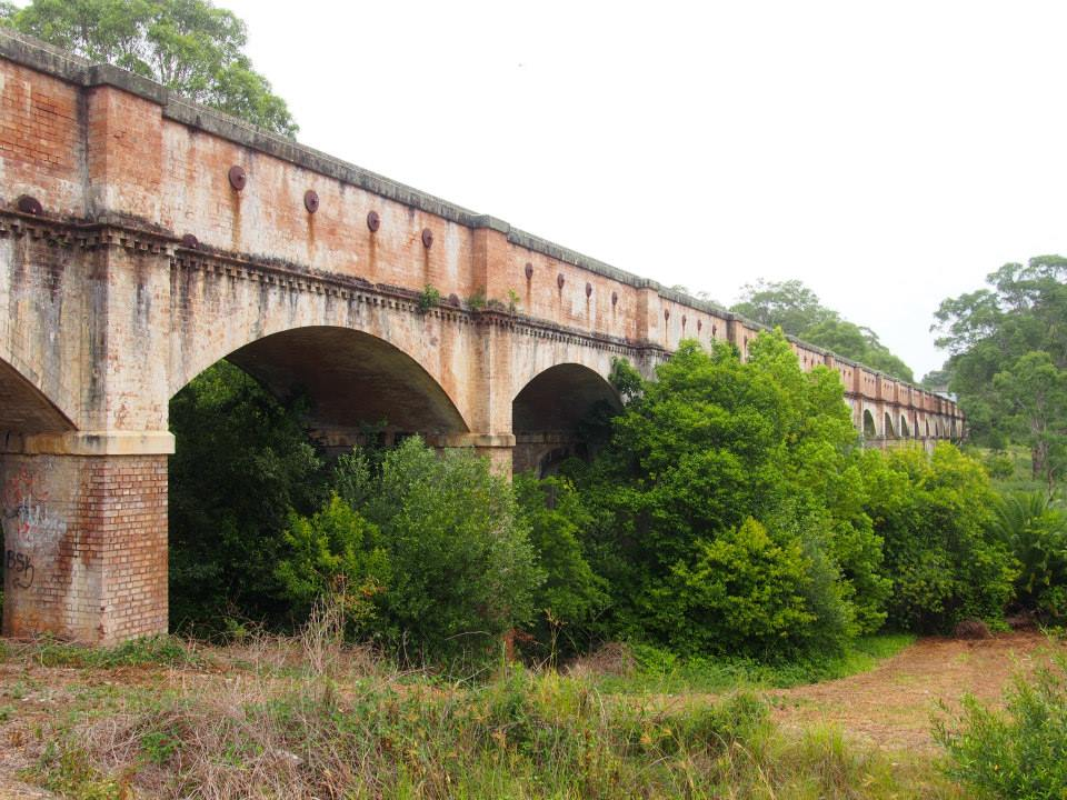 View from the other bushy end of Greystanes Aqueduct.